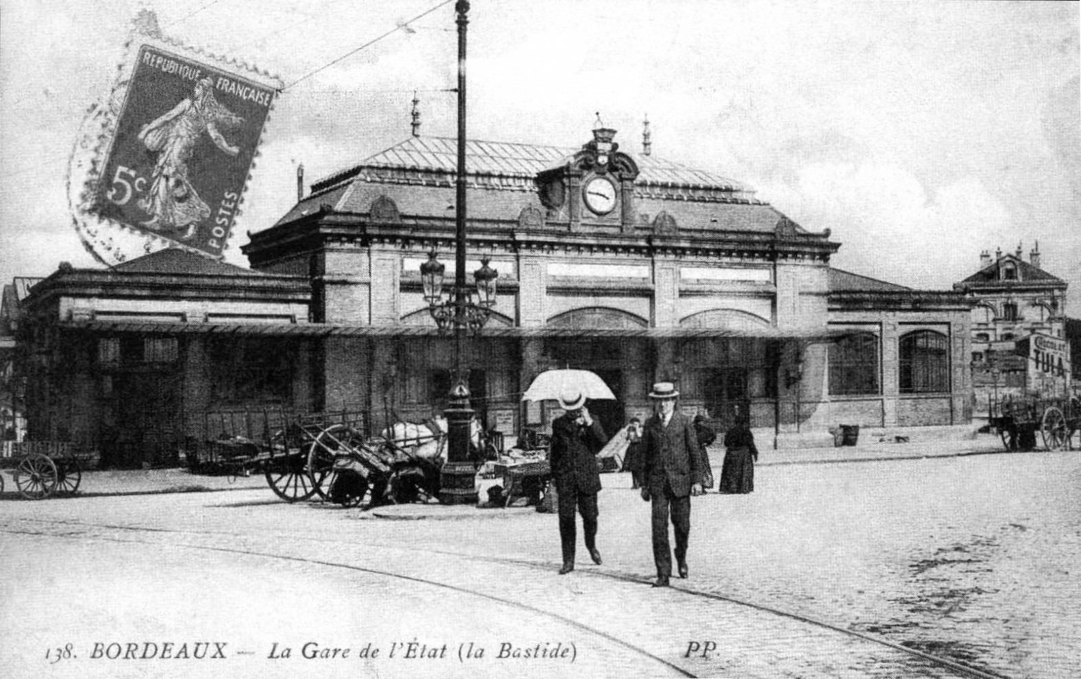 Gare de Bastide-État